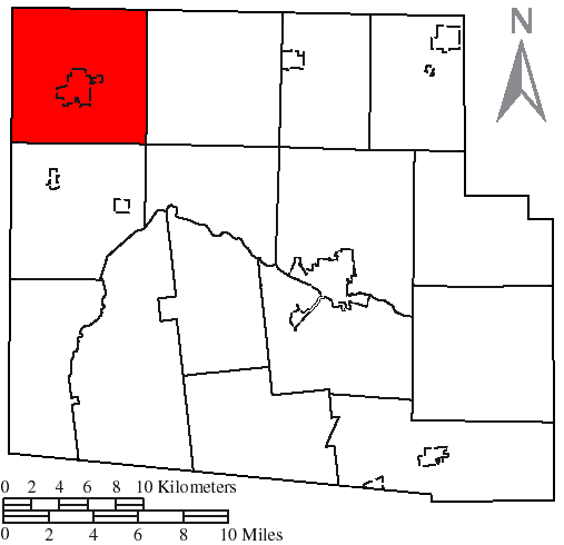 Made by the US Census and modified by myself to highlight the township